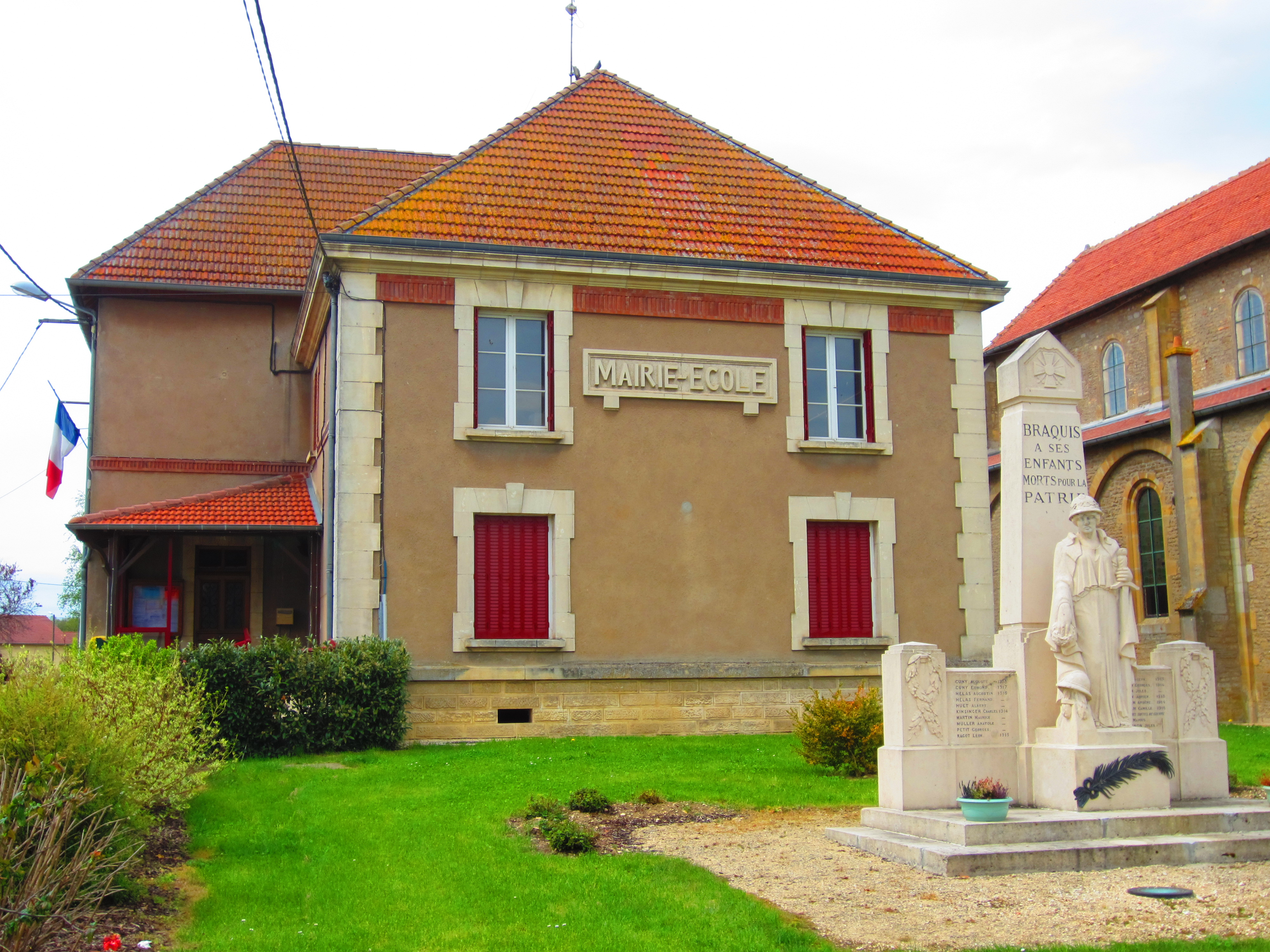 Braquis town council